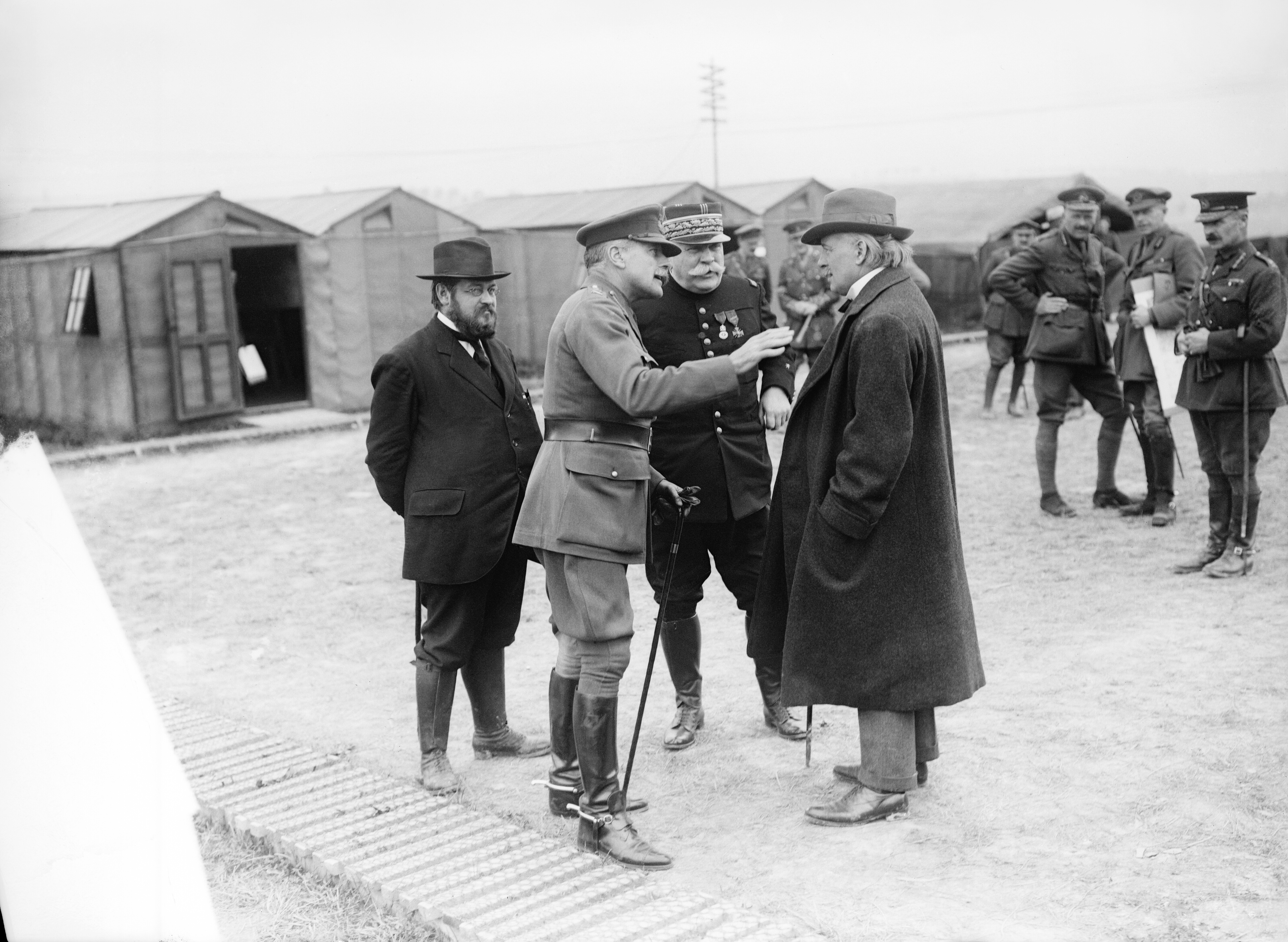 Photograph of British Minister of Munitions, Mr Lloyd George (right), General Sir Douglas Haig (second from left), General Joffre (third from left) and the French Under Secretary for Munitions, Albert Thomas (left) at 14th Army Headquarters at Meaulte, France.